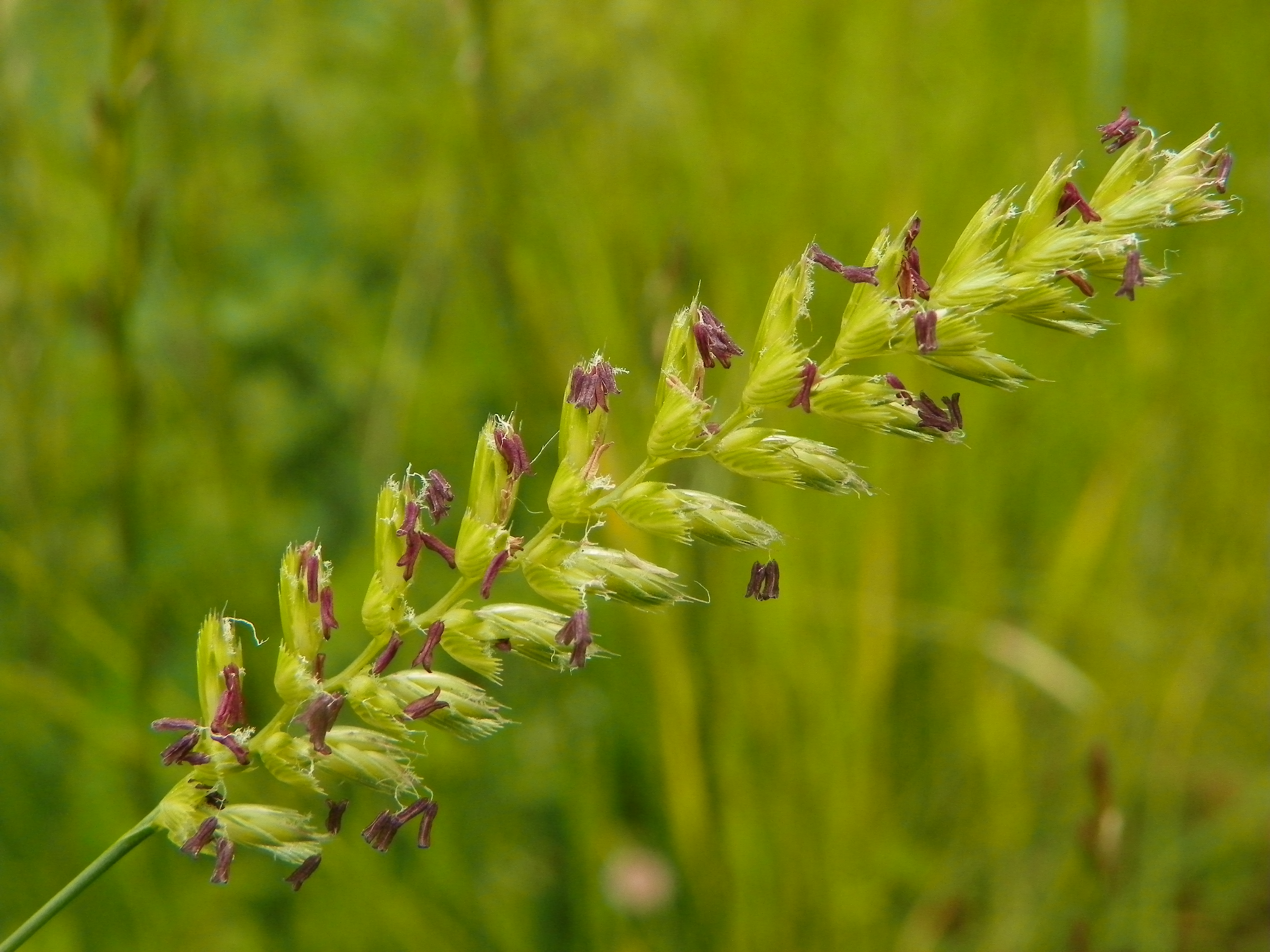 Crested Dog's-tail (Cynosurus cristatus), Shackledell Grassland, Stevenage, Hertfordshire, 1 July 2013.